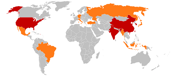 Main producers of synthetic textile fibers